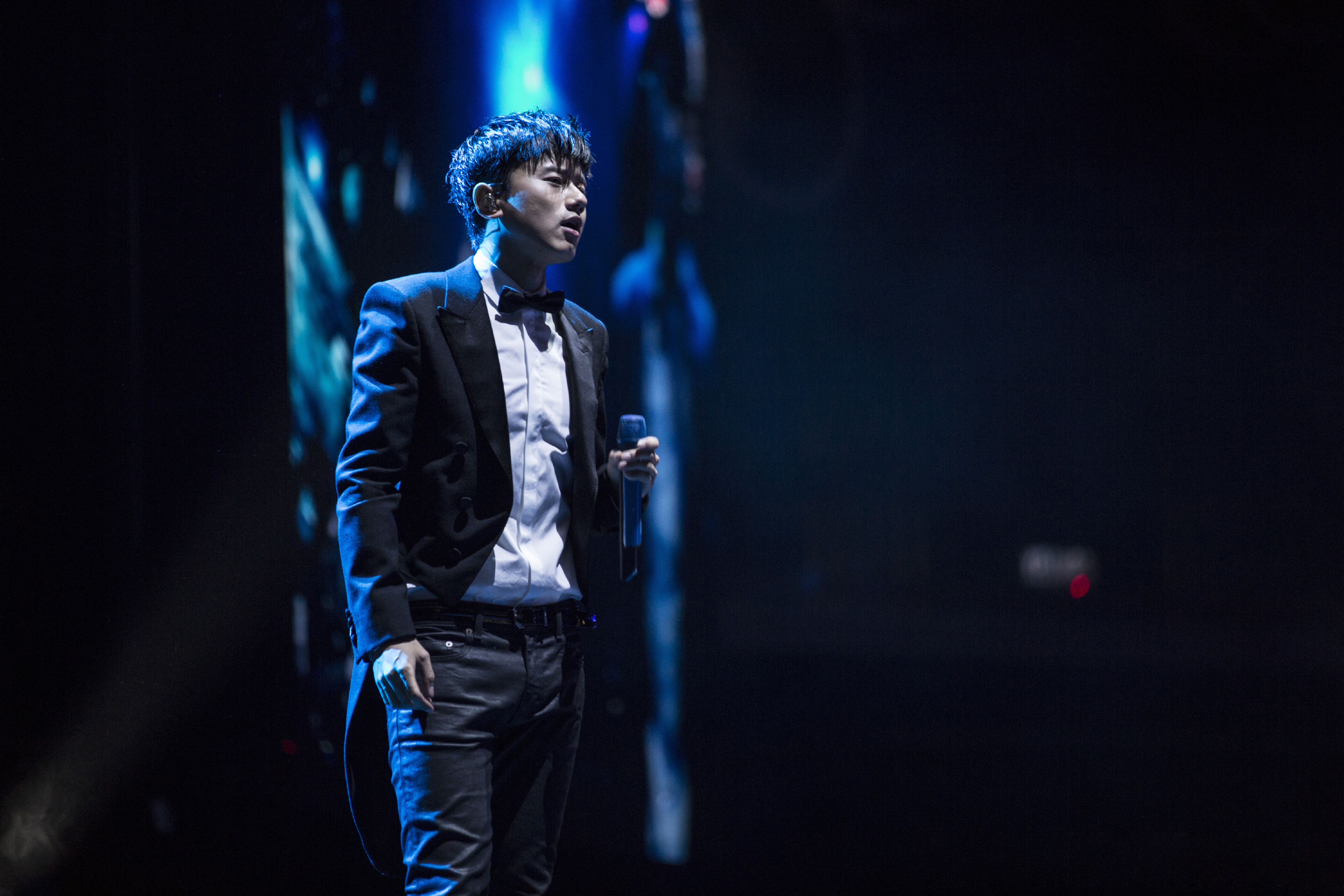 Zhang Jie in Kuala Lumpur